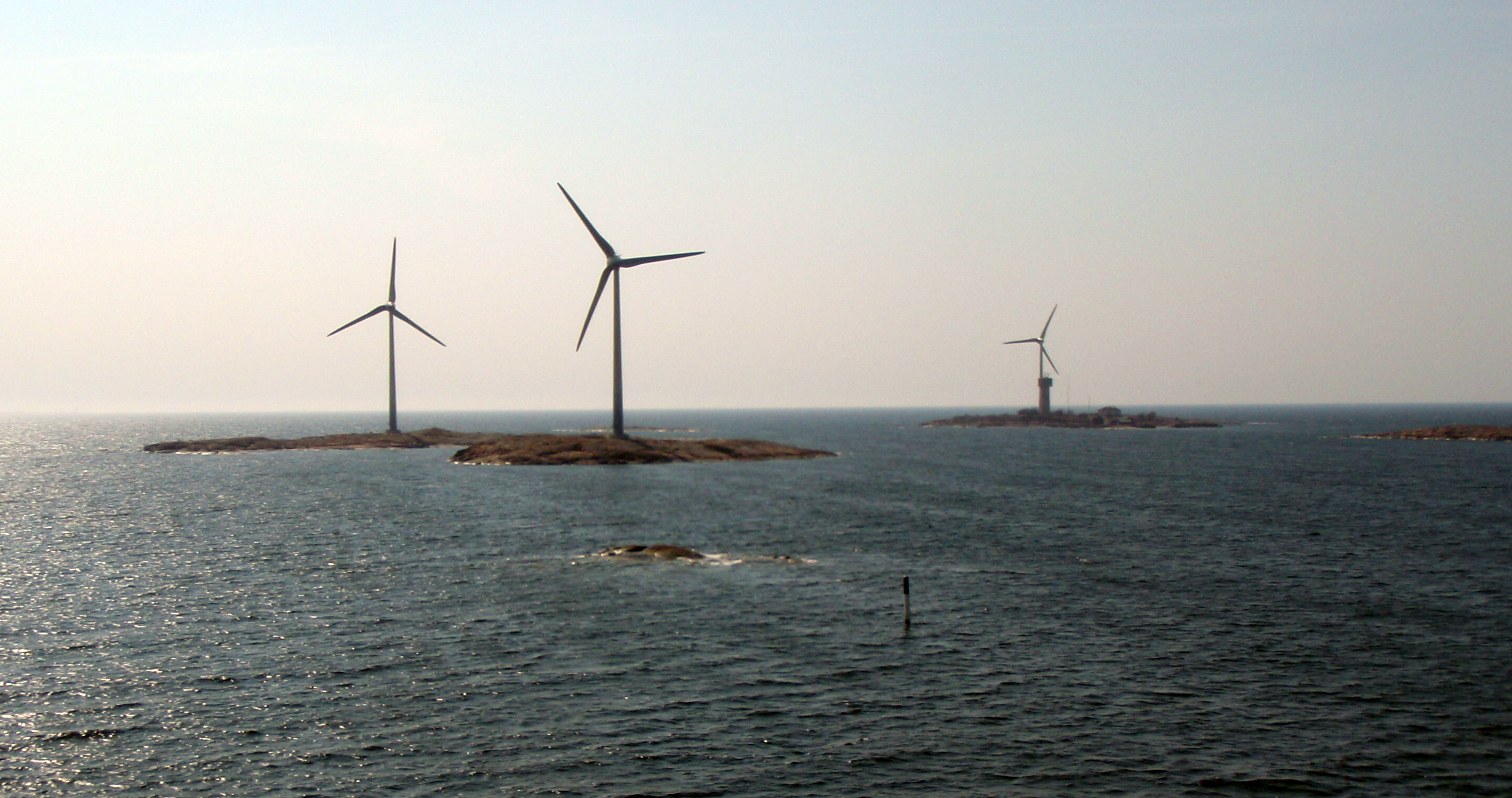 Wind power in Båtskär, Lemland, Åland, Finland.